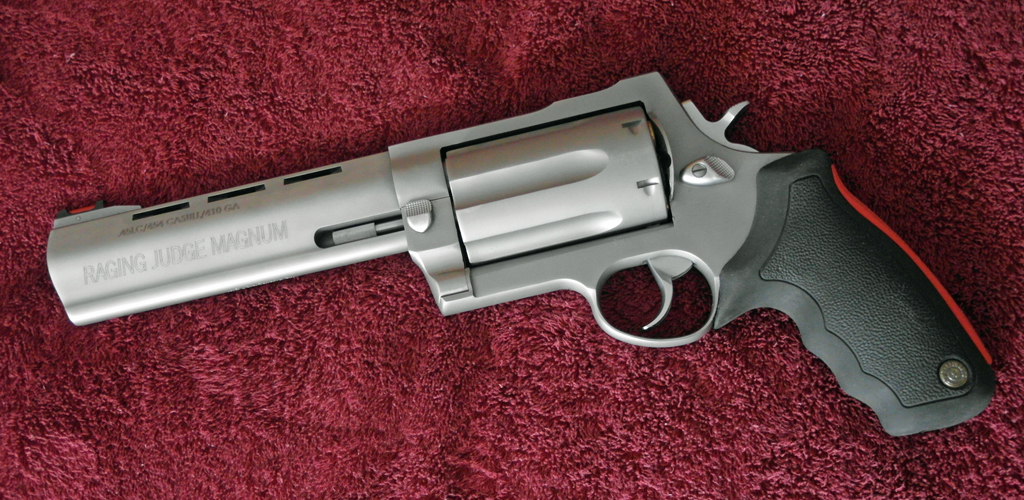 Taurus Raging Judge Magnum revolver, chambered in .454 Casull, .45 colt, as well as .410 bore